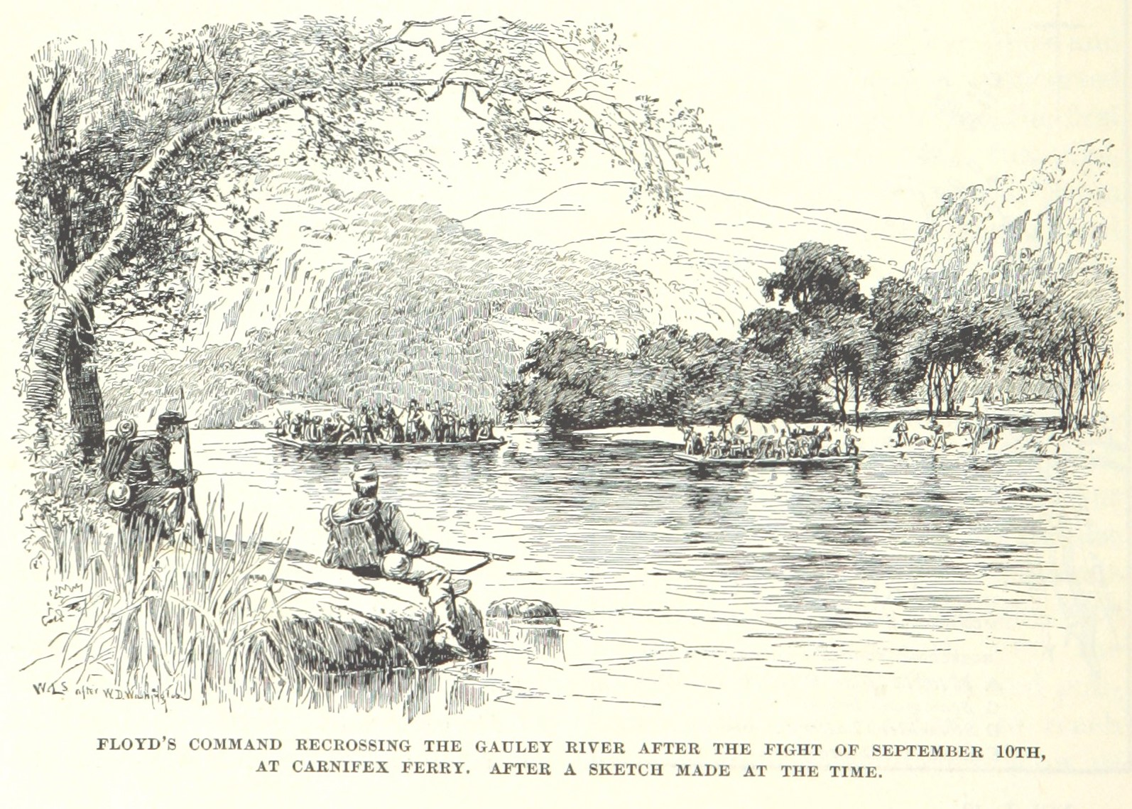 After the Battle of Carnifex Ferry, Confederate troops under John B. Floyd retreat across the Gauley River